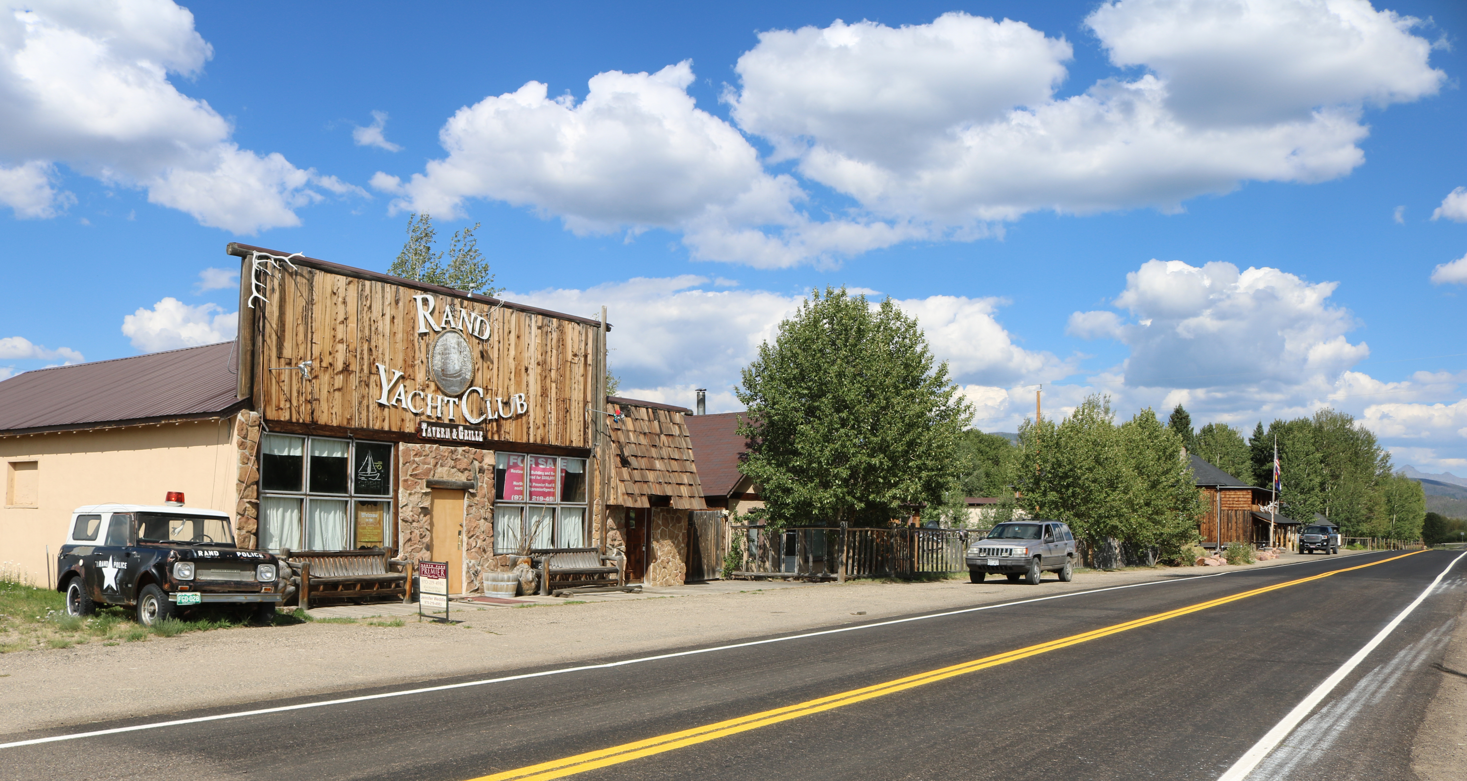 A view of Rand, Colorado in Jackson County. The view includes the (now closed) Rand Yacht Club, a restaurant and bar, and a spoof police car with lettering that says "Rand Police." The road is Colorado State Highway 125.